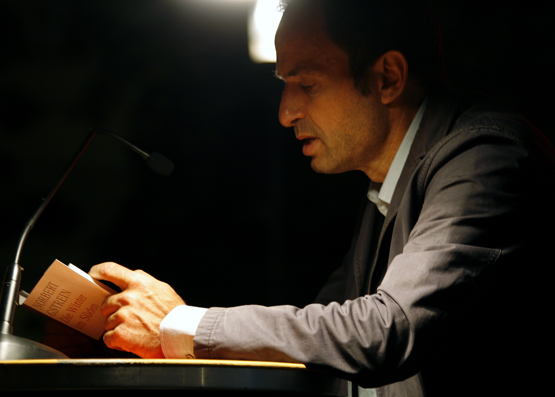 Austrian writer Norbert Gstrein; reading at the literary festival O-Töne 2008 at the MuseumsQuartier in Vienna, Austria.